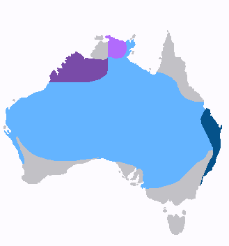 Range map for the Variegated Fairy-wren. Subspecies are: M. l. lamberti: dark blue, M. l. dulcis: dark violet M. l. rogersi:light violet and M. l. assimilis:light blue